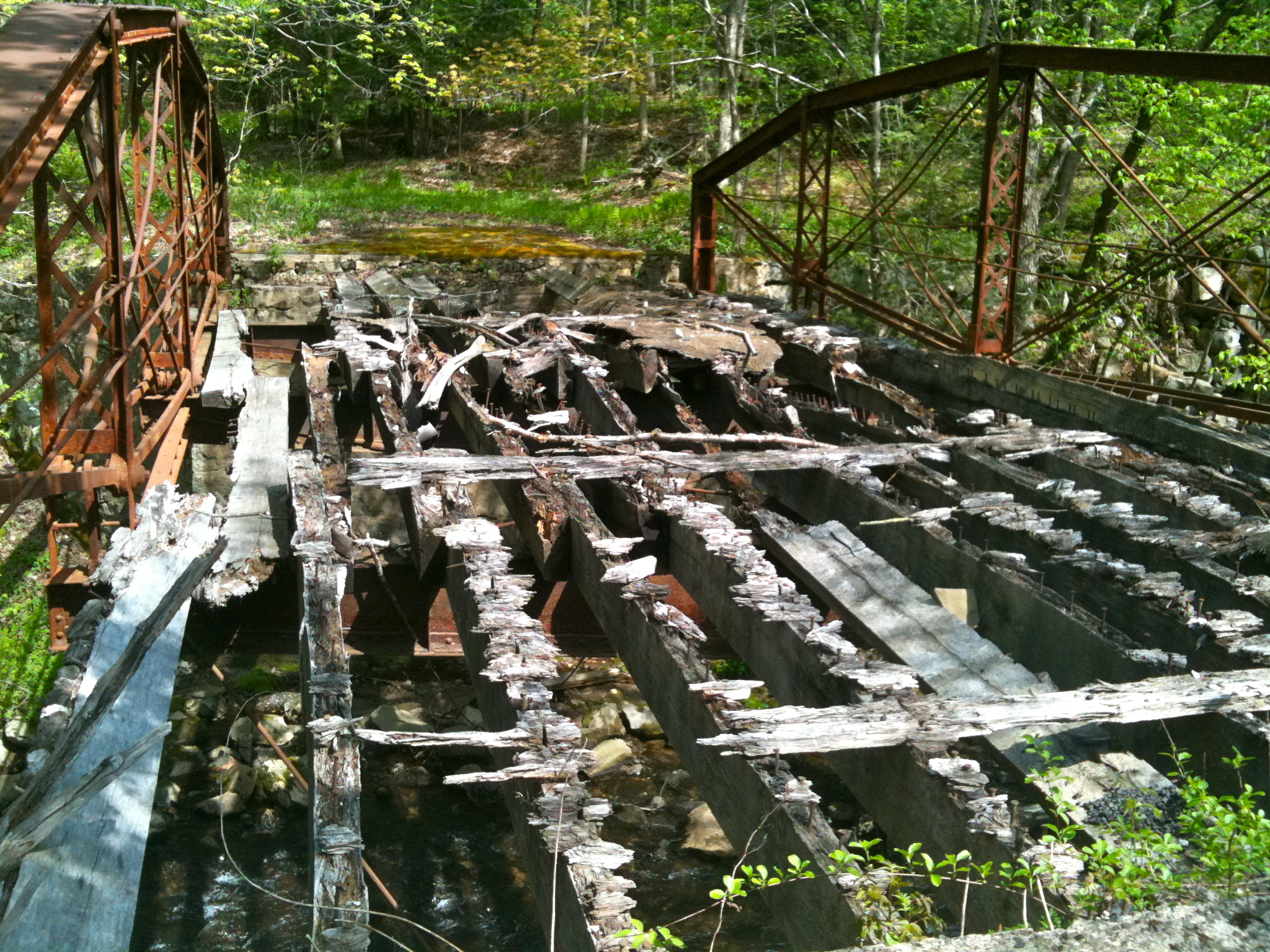 Jericho Blue-Blazed Trail. Ruins of Bridge at end of Sheffield Street, Waterbury. Trailhead for Hancock Brook Trail.